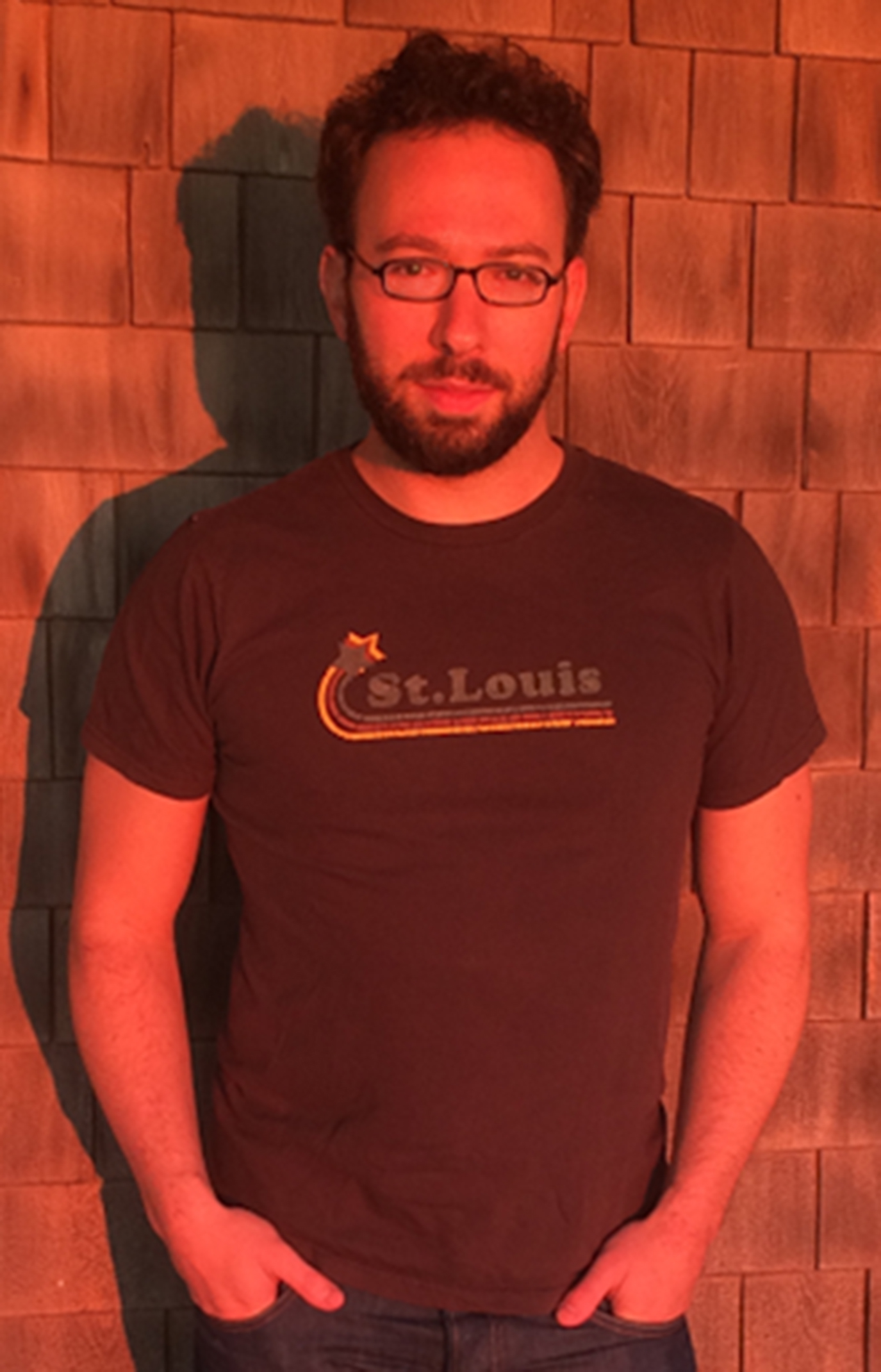 Teddy Wayne, photo credit: Kate Greathead